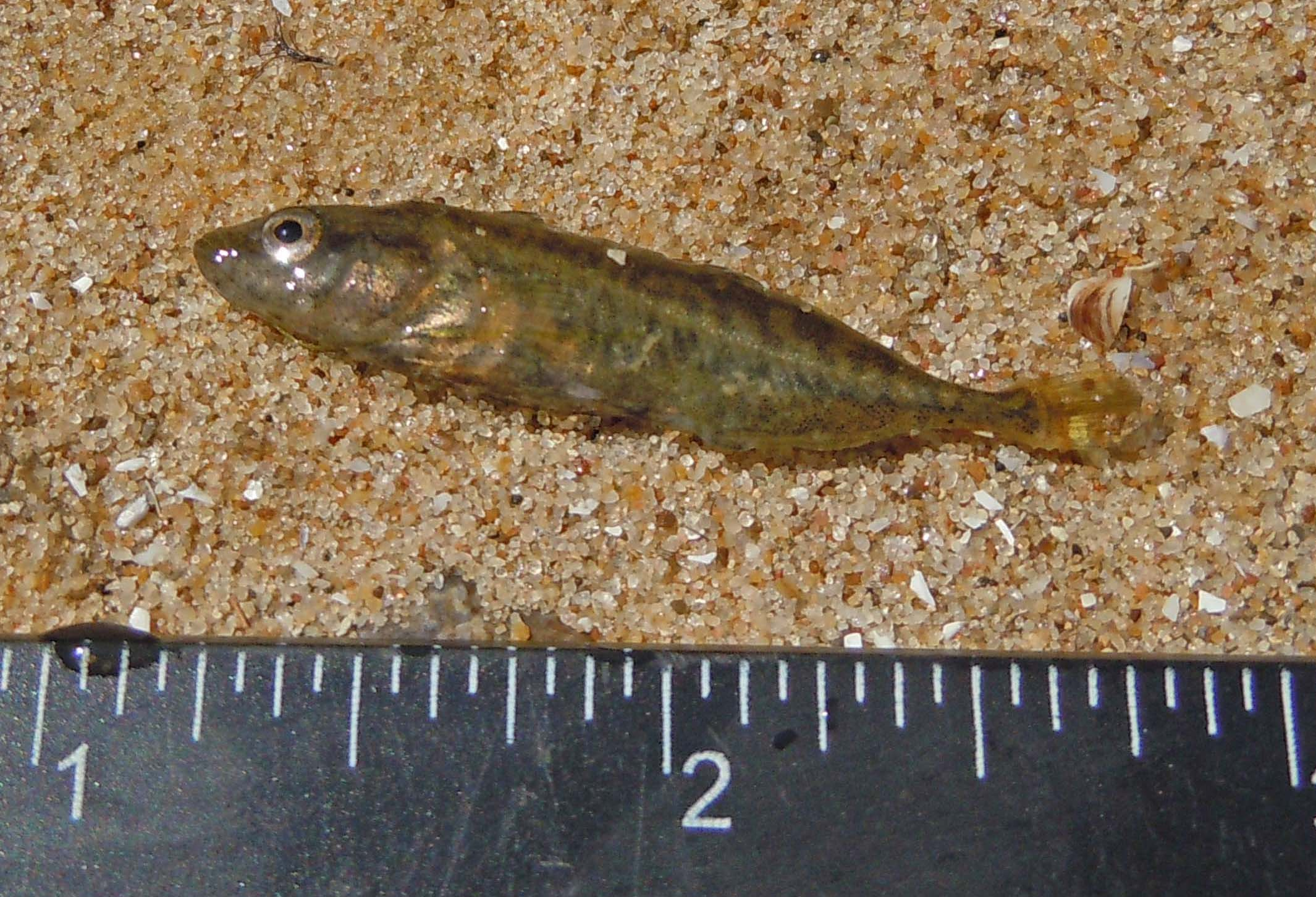 Ukrainian stickleback (Pungitius platygaster) from the Dniester Estuary, Ukraine